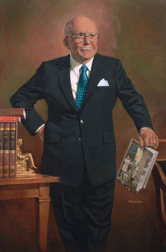 Augustus F. Hawkins, member of the United States House of Representatives.